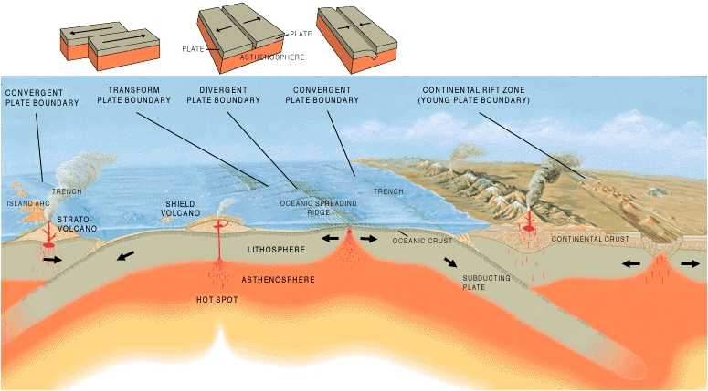 A cross section illustrating the main types of plate boundaries.